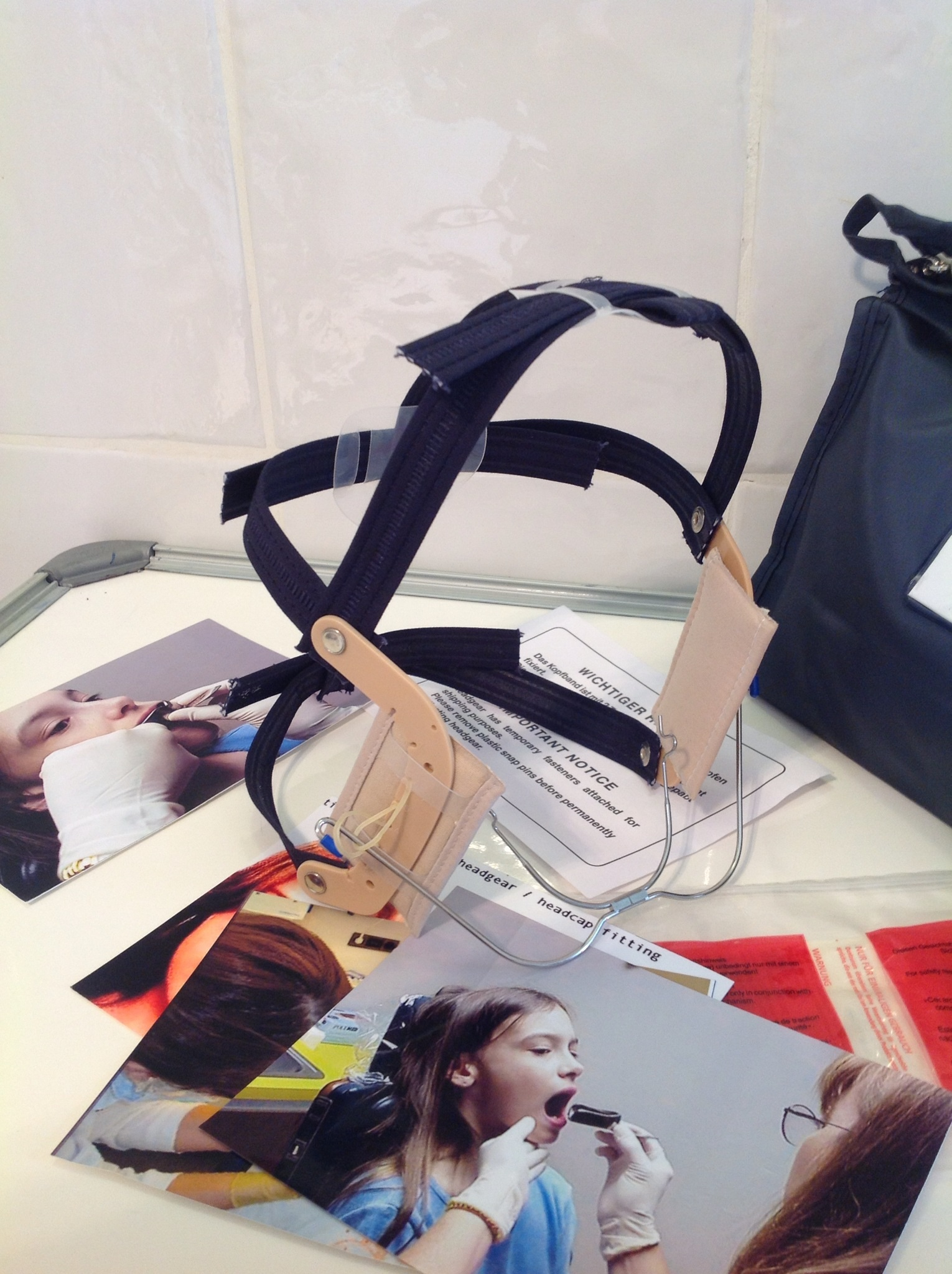 Headgear appliance being prepared for fitting to patient's head.